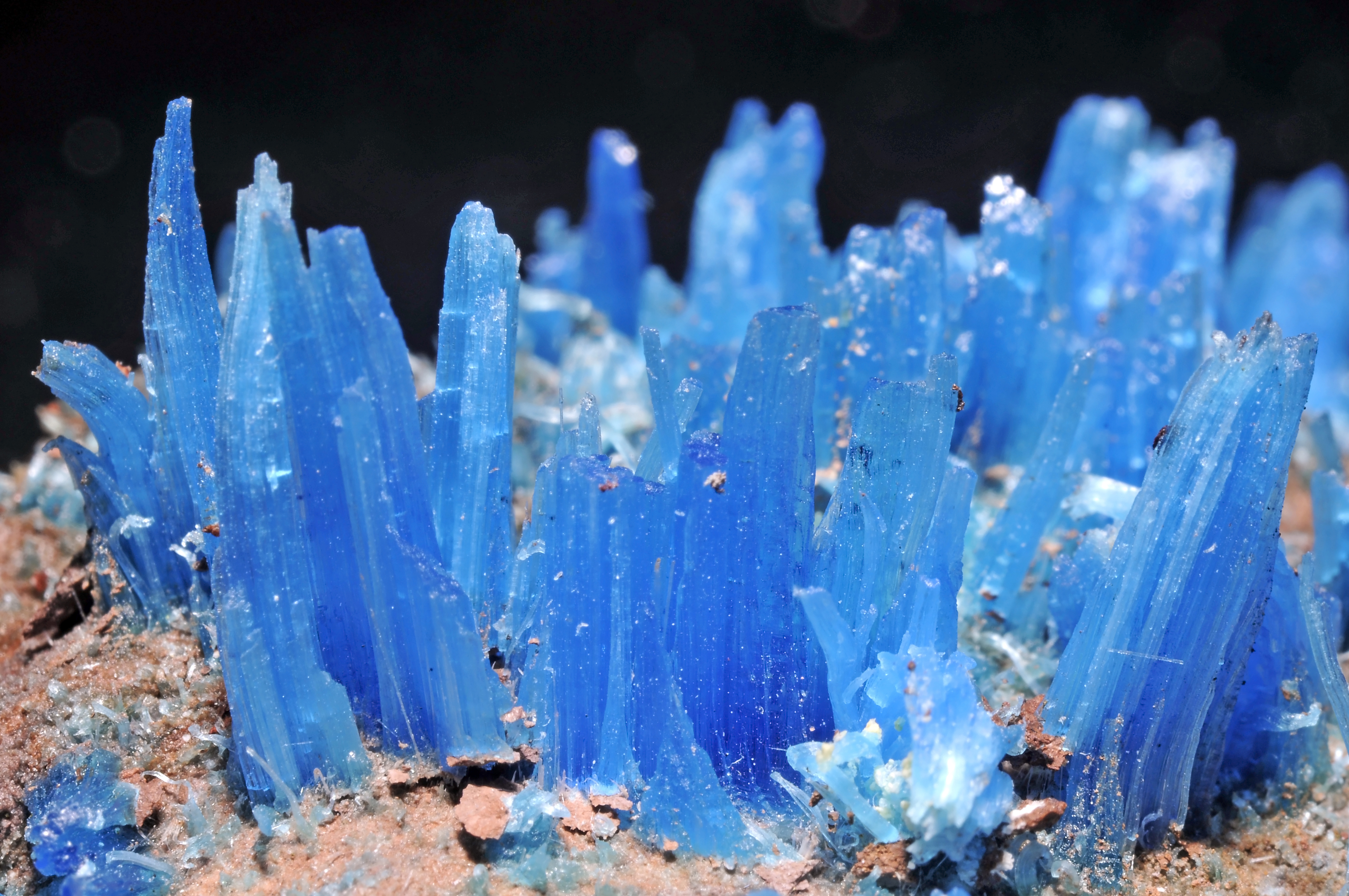 crystals of chalcanthite, crystals of limonite : Planet Mine (Planet Copper Mine ; New Planet Mine), Planet Mine group (New Planet Mine group ; Great Central Mine), Planet, Santa Maria District (Planet District ; Swansea District ; Bill Williams District), Buckskin Mts, La Paz Co., Arizona, USA